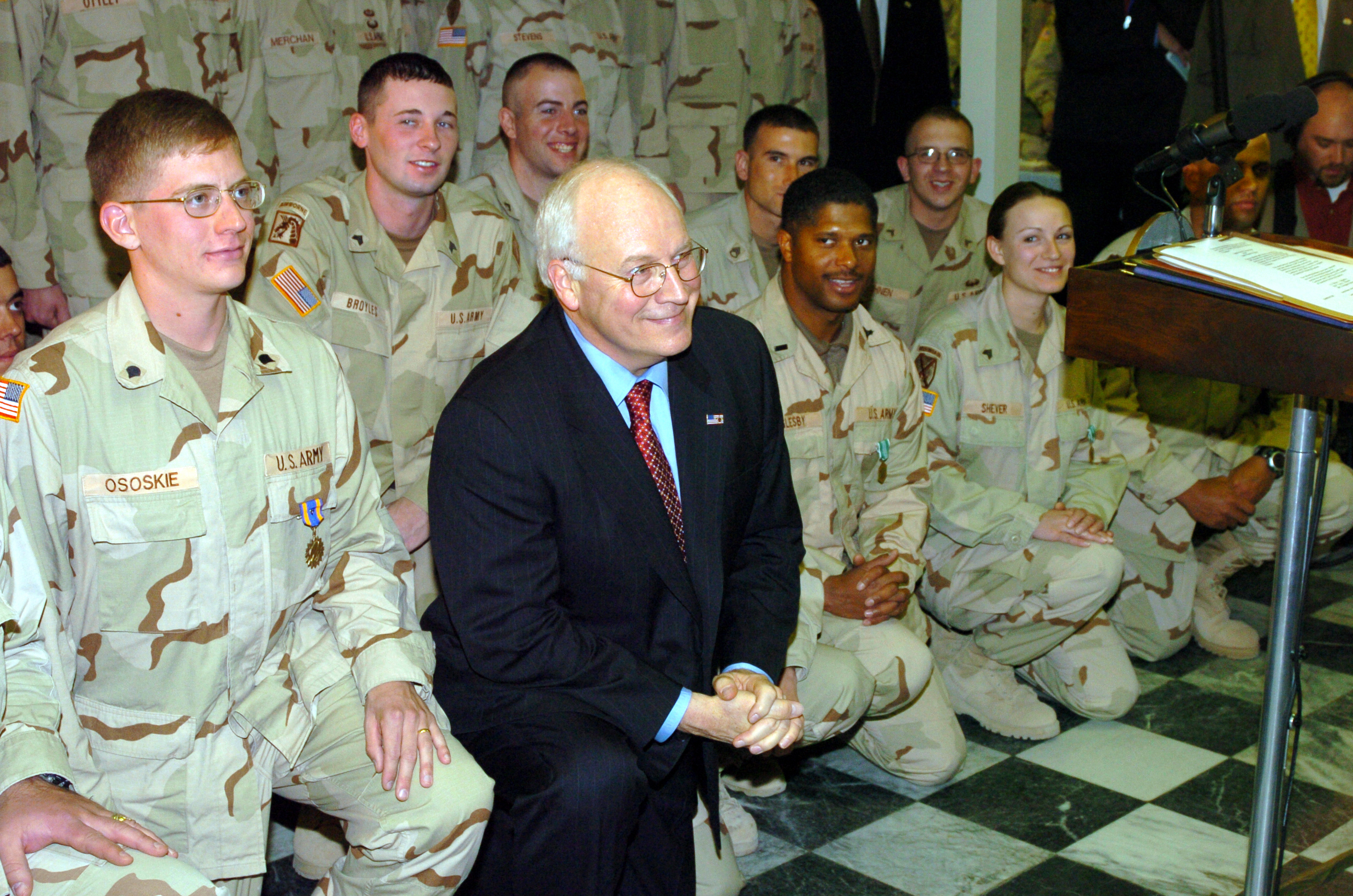 Bagram, Afghanistan (Dec. 7, 2004) - U.S. Vice President Dick Cheney takes a moment to pose with several service members in the dinning facility in Bagram, Afghanistan before departing to Kabul, Afghanistan for the country's first presidential inauguration. During Cheney's visit he participated in a mass reenlistment and awards ceremony. U.S. Navy photo by Journalist 1st Class Kristin Fitzsimmons (RELEASED)